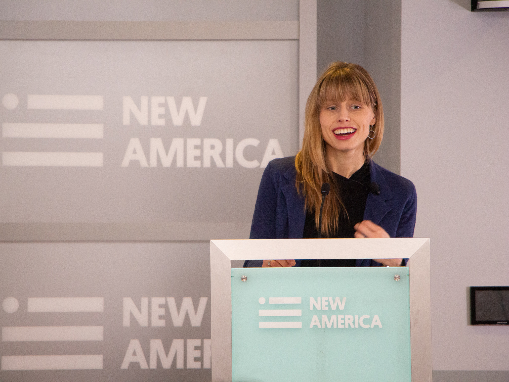 Mara Hvistendahl, 2017 National Fellow, New America. Author, The Scientist and the Spy: A True Story of China, the FBI, and Industrial Espionage.